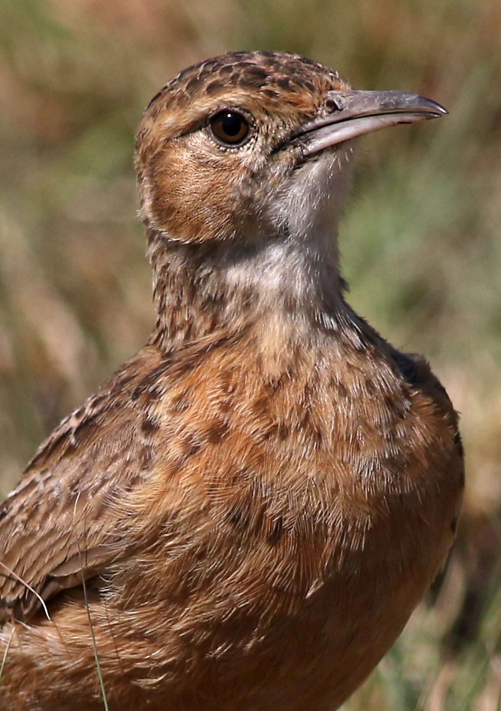 Spike-heeled lark, Chersomanes albofasciata, at Suikerbosrand Nature Reserve, Gauteng, South Africa